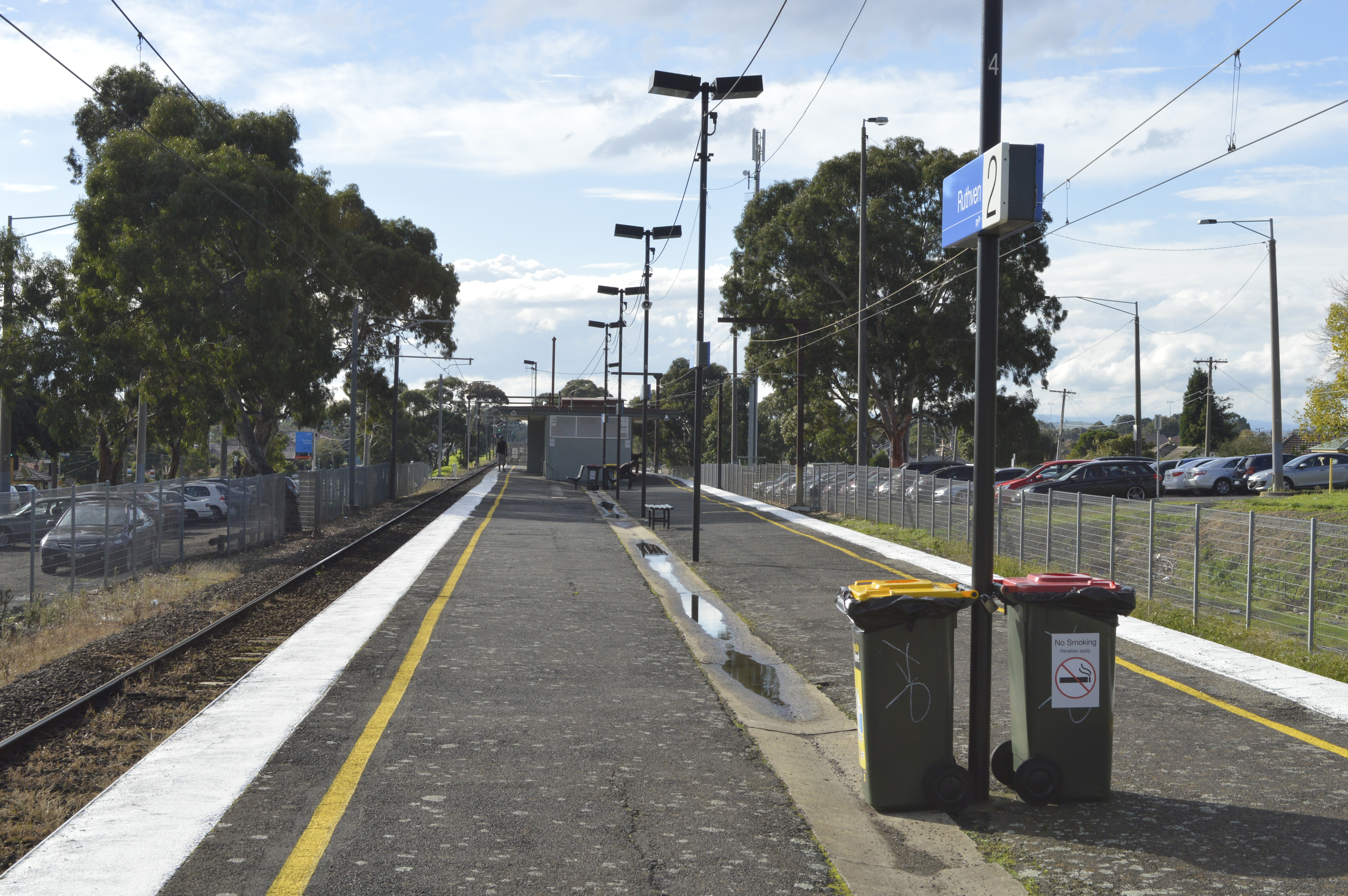 Looking towards South Morang